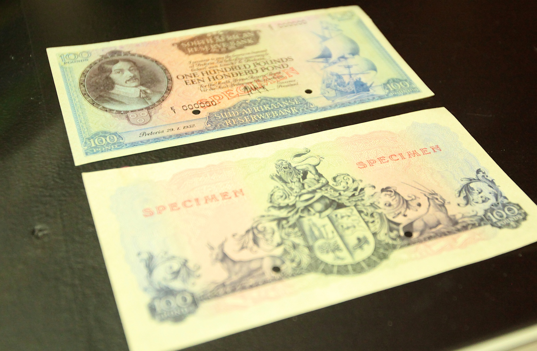 National Cultural History Museum, Boom Street, Pretoria This media shows a South African Protected Site with SAHRA file reference 9/2/258/0061.